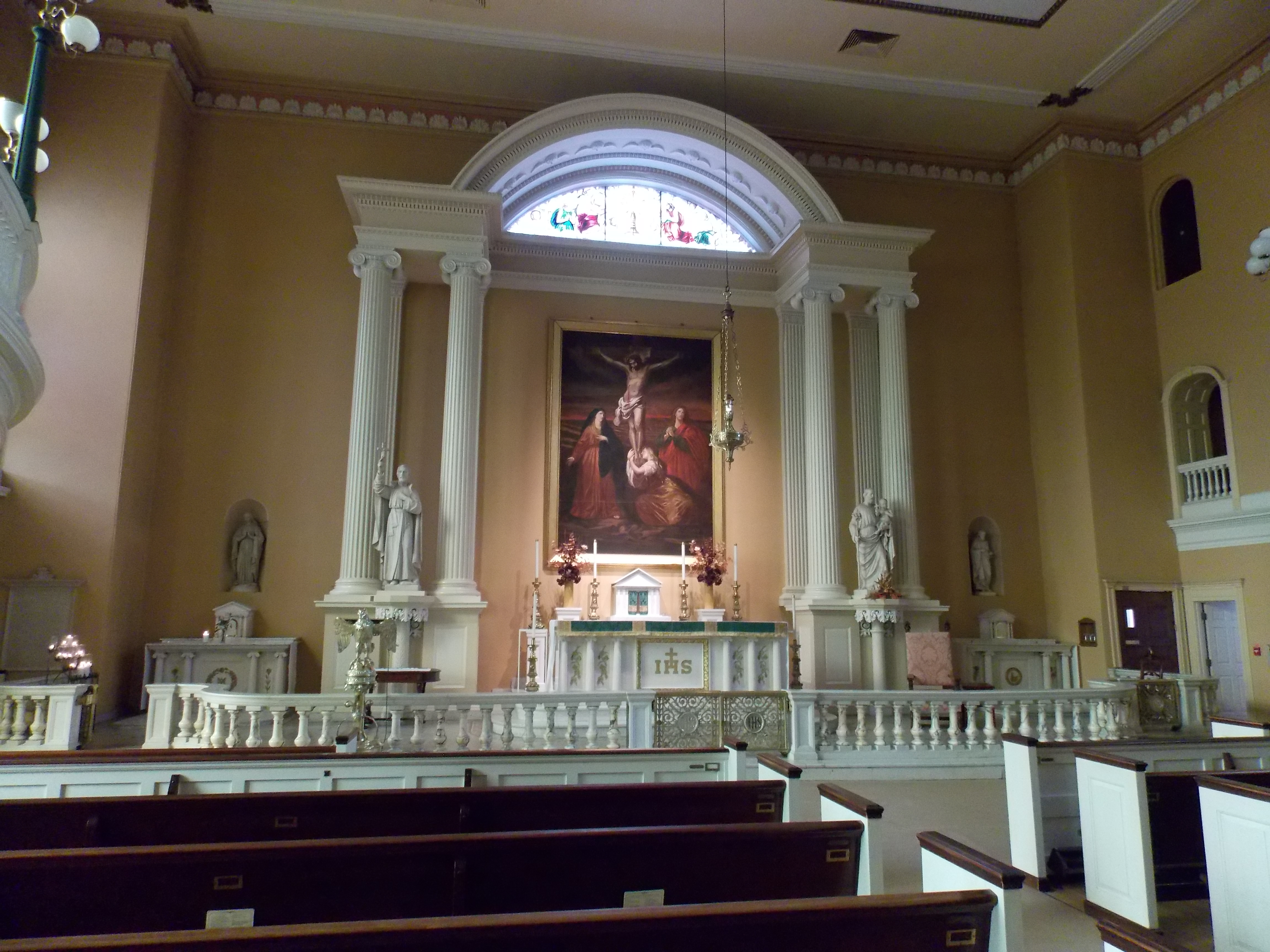 The interior of Old St. Joseph's Church in the Society Hill neighborhood of Philadelphia, Pennsylvania.